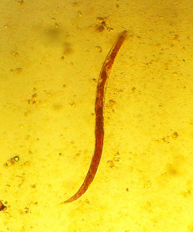 Iodine stained Strongyloides stercoralis wet prep